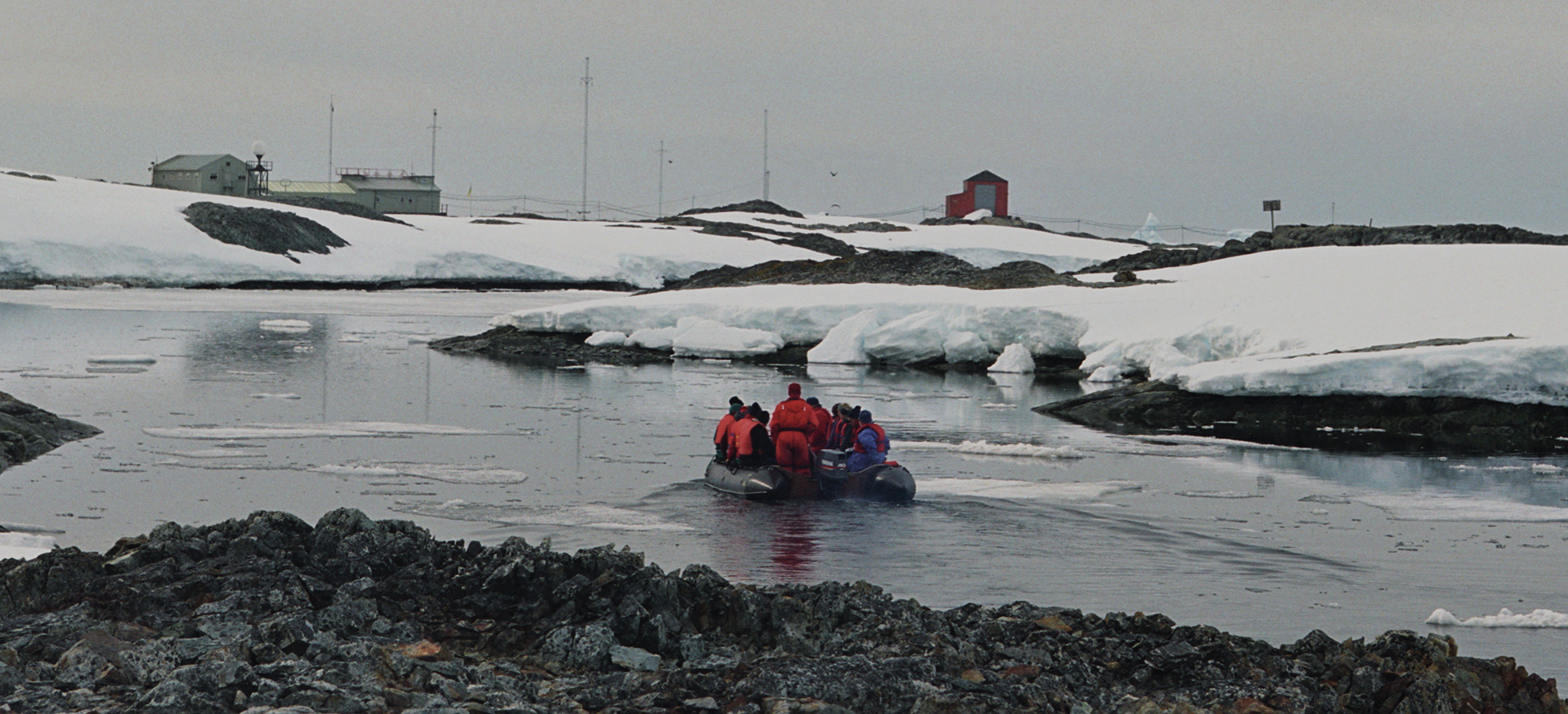 Ukrainian Antarctic Station - Vernadsky Research Base